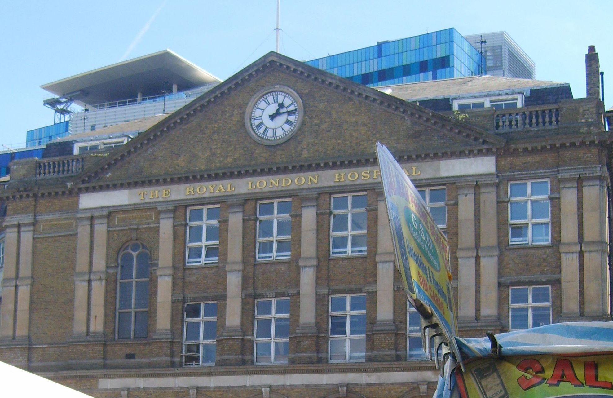 Royal London Hospital